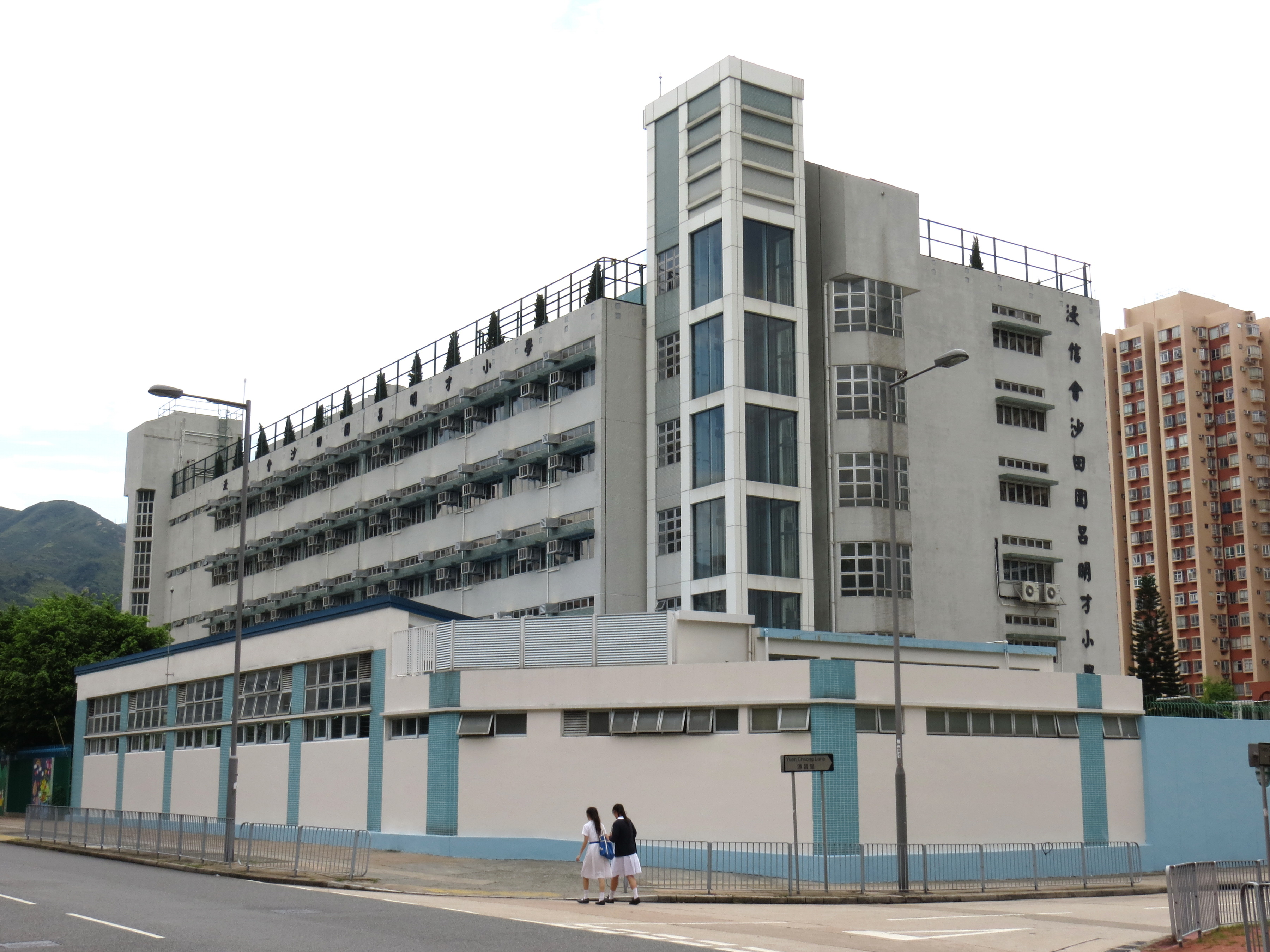 Baptist (Sha Tin Wai) Lui Ming Choi Primary School, Sha Tin, New Territories, Hong Kong.